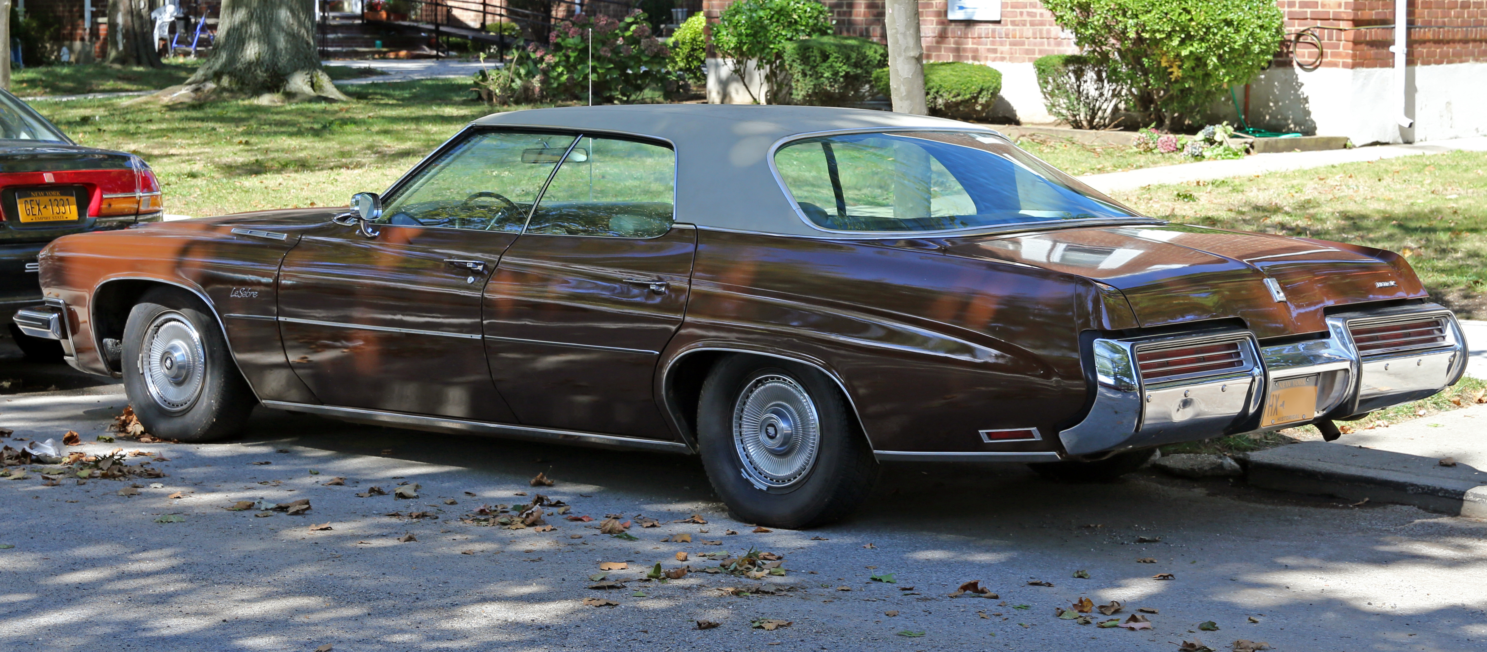 1973 Buick LeSabre 4-door hardtop sedan. This has the optional 175hp 350ci 4-barrel V8 and was assembled in Wilmington, Delaware. 13,413 of these were built (all engine options).